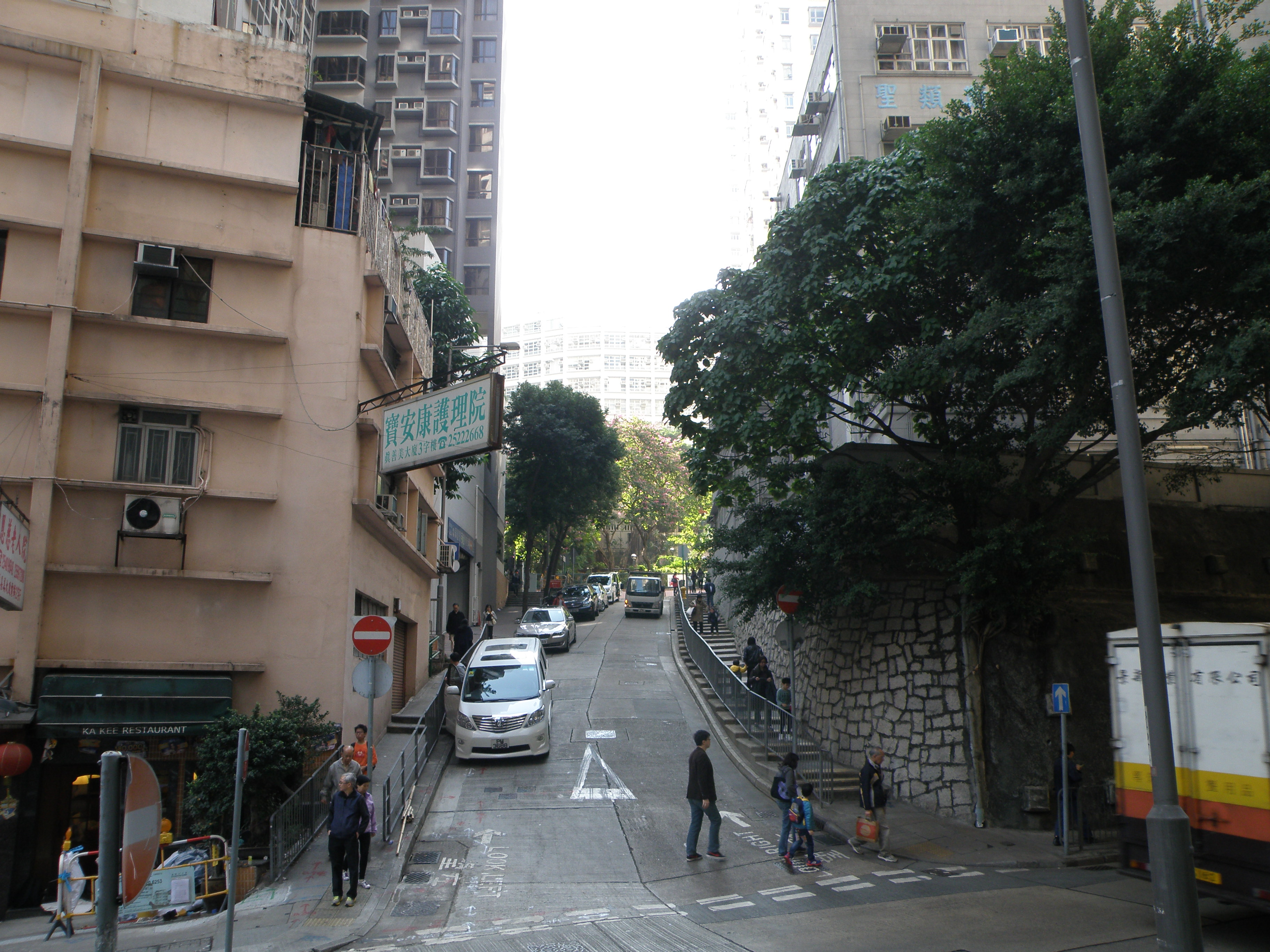 Kwong Fung Lane in Shek Tong Tsui, Hong Kong.